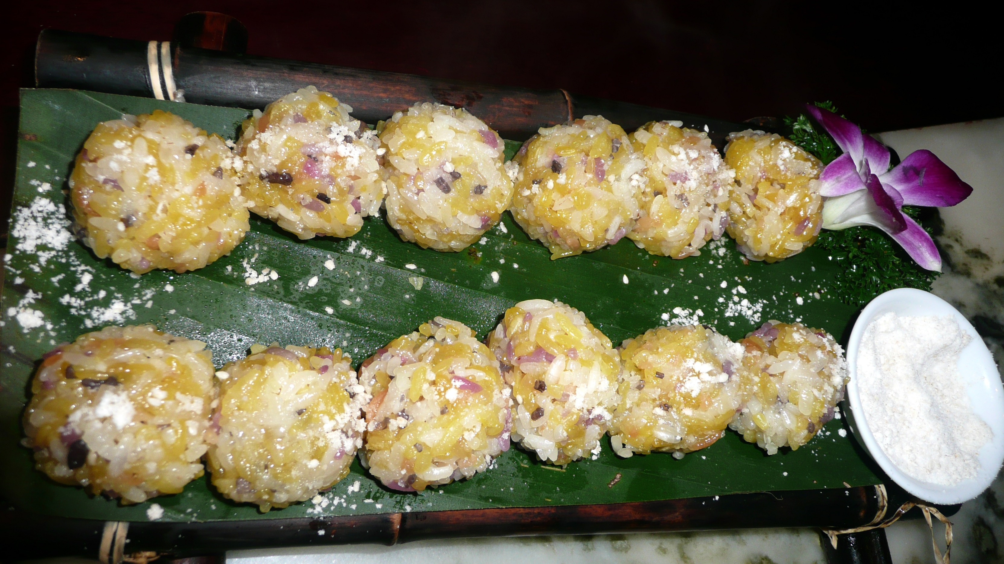 Chinese rice cake (米糕 migao, Reiskuchen), restaurant in Kunming, Yunnan, China